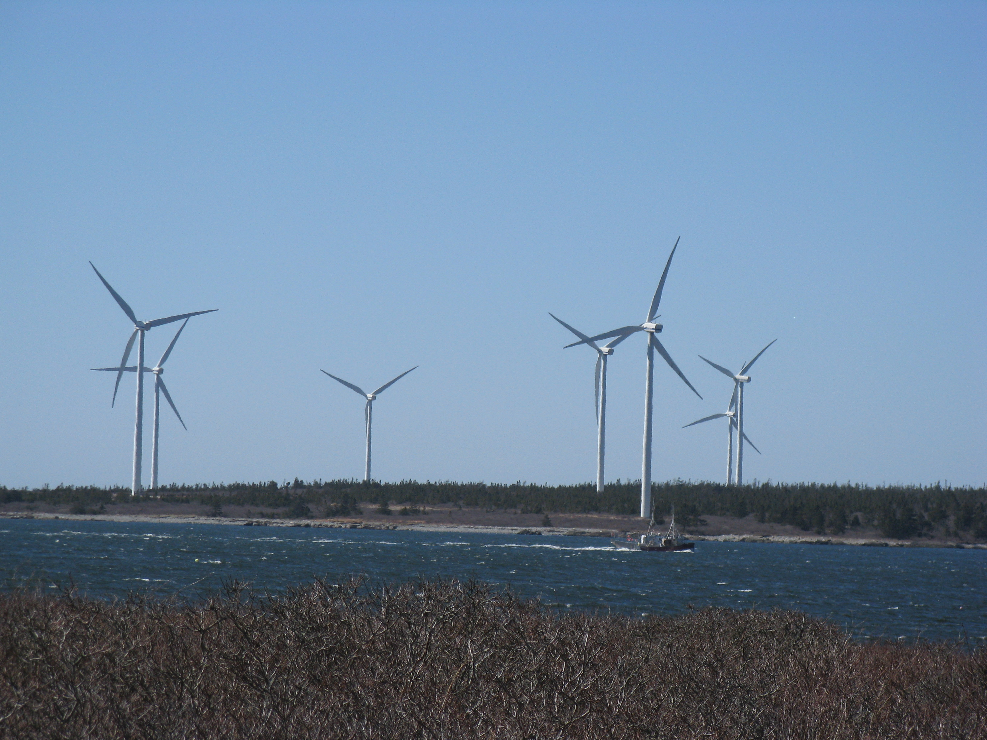 Wind farm at Pubnico Point, Shelburne County, Nova Scotia